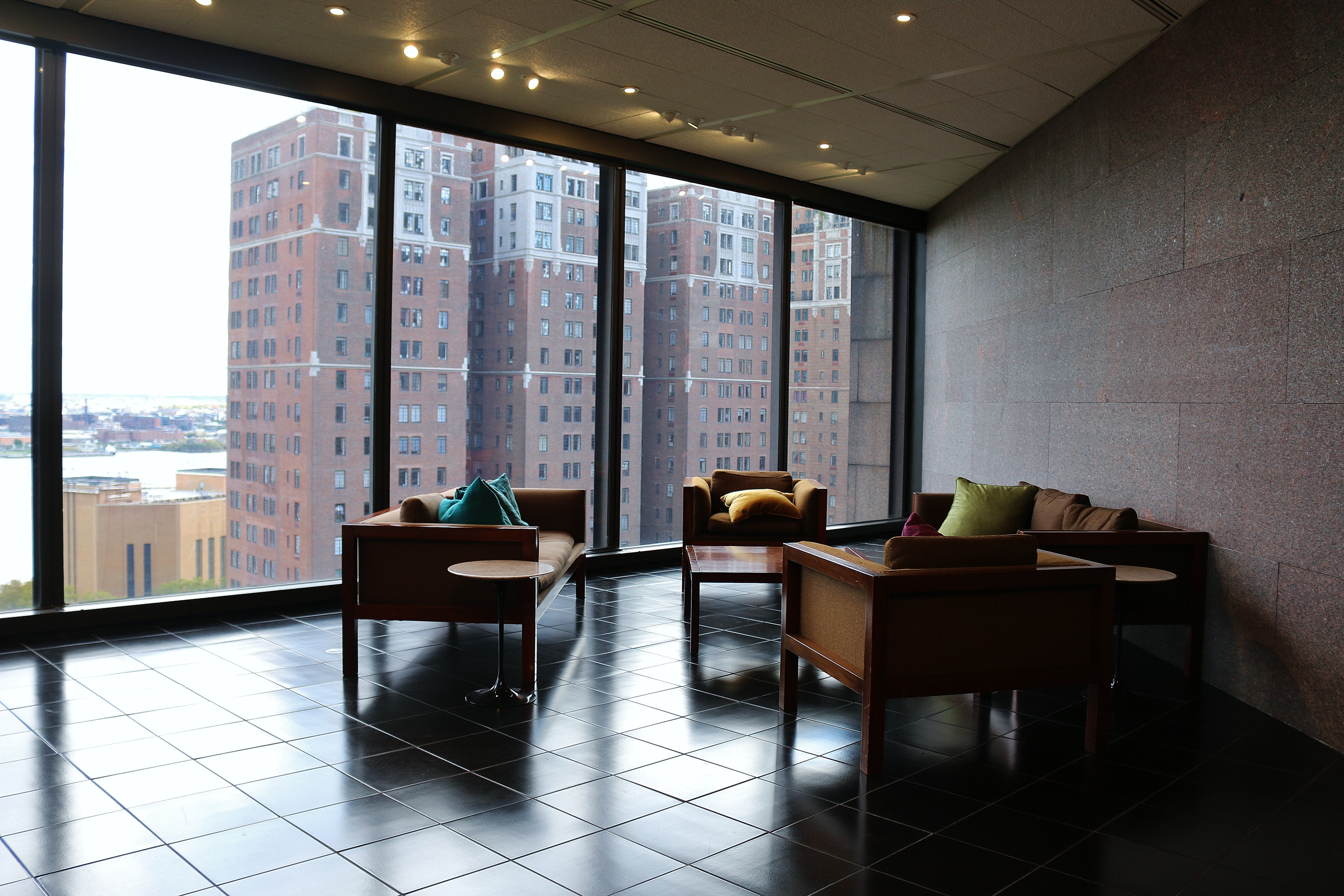 Top Floor at The Ford Foundation Site: The Ford Foundation